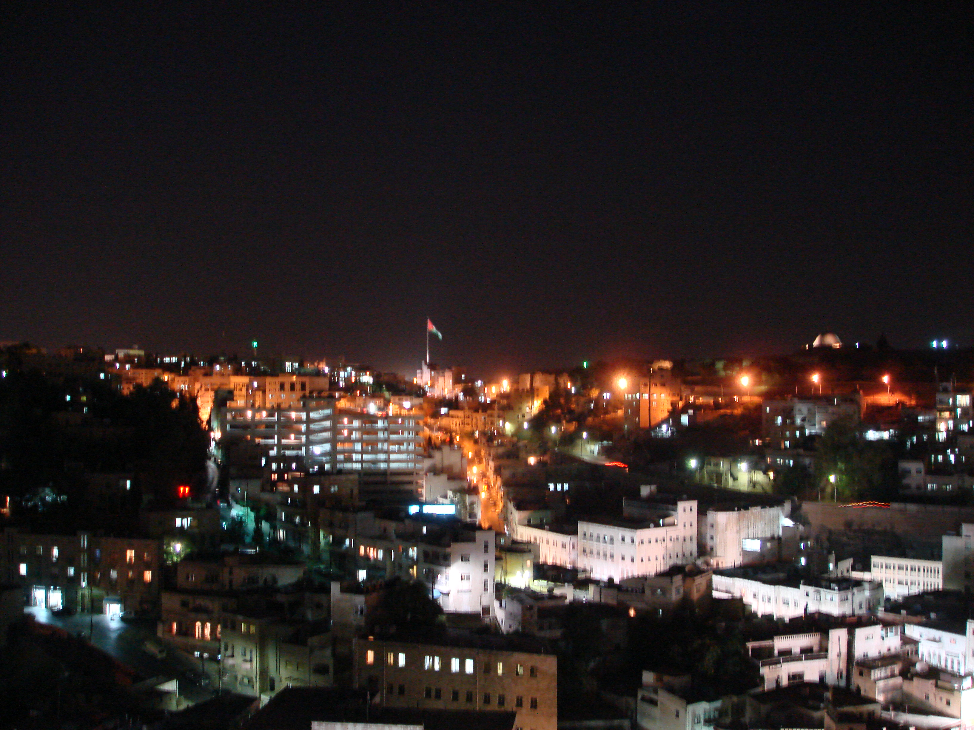 Citadel Mountain "Jabel Al Qala'a" in Amman City - as seen as from Rainbow St. / Jabel Amman